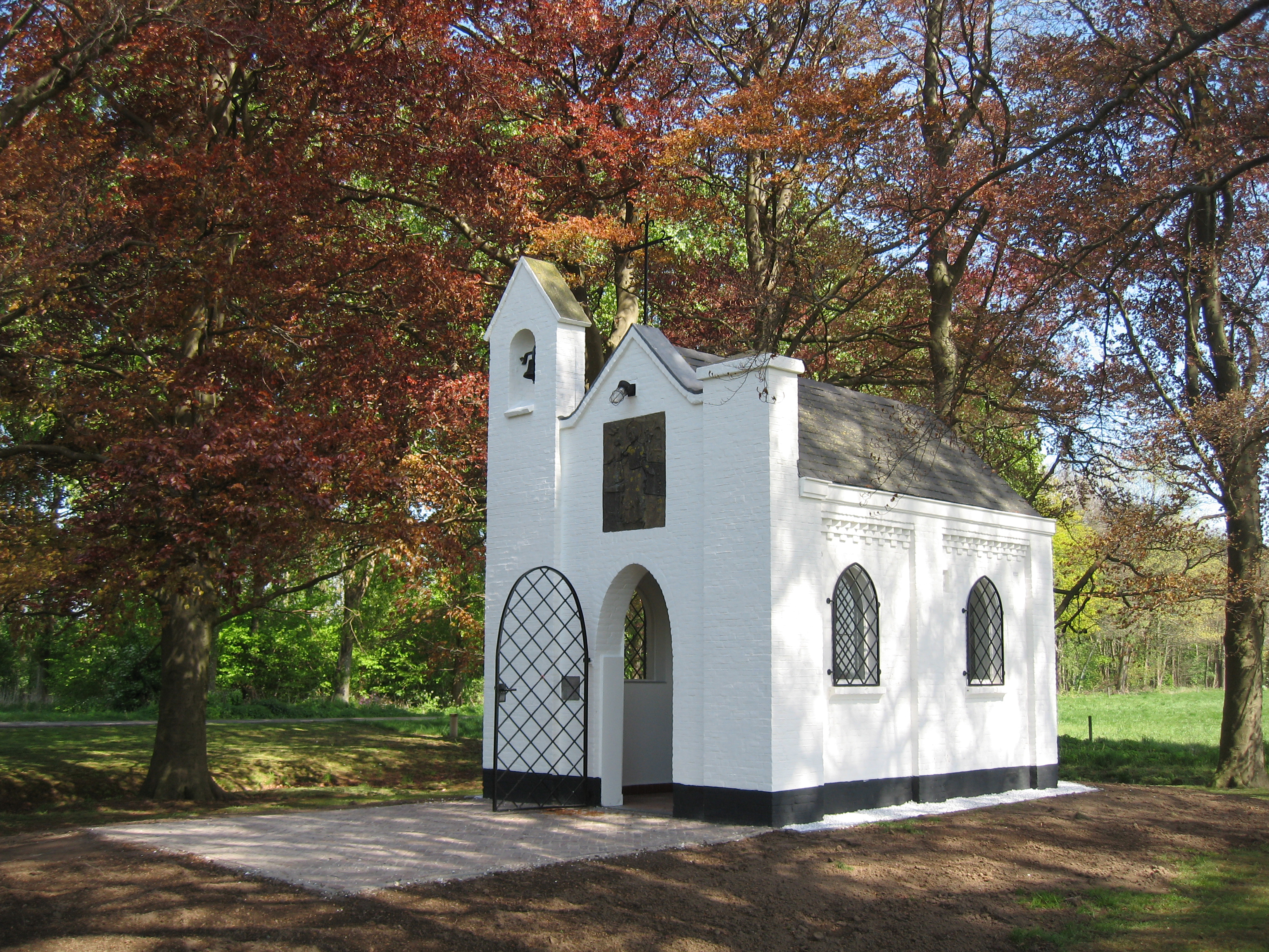 St. Jozef Kapel in Biest-Houtakker